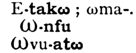 Latin Omega (capital and lowercase) used in Harry H. Johnston, 1919, A comparative study of the Bantu and semi-Bantu languages.